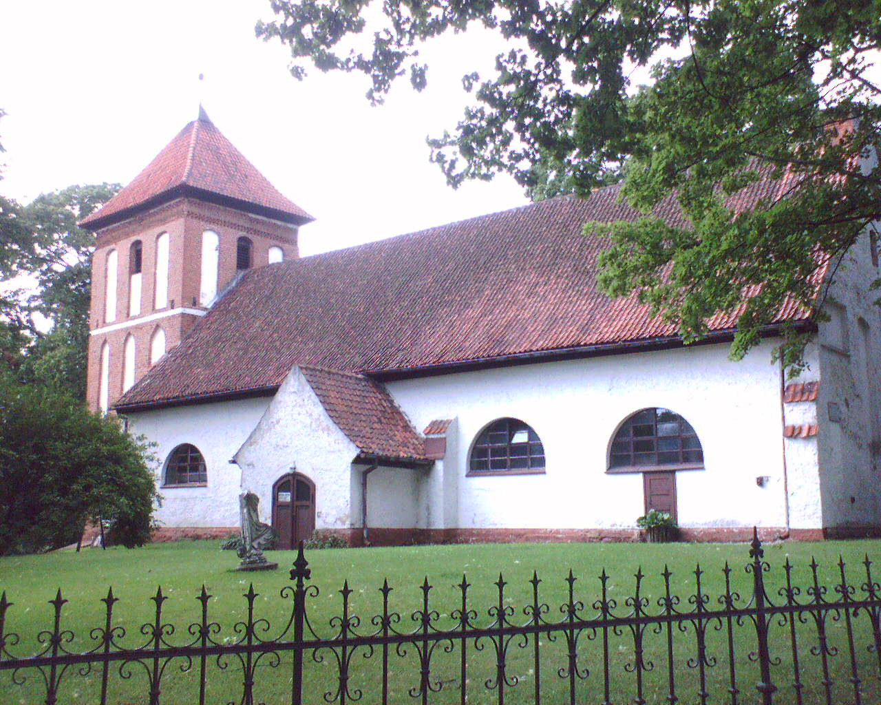 Lutheran church in Sorkwity, Poland